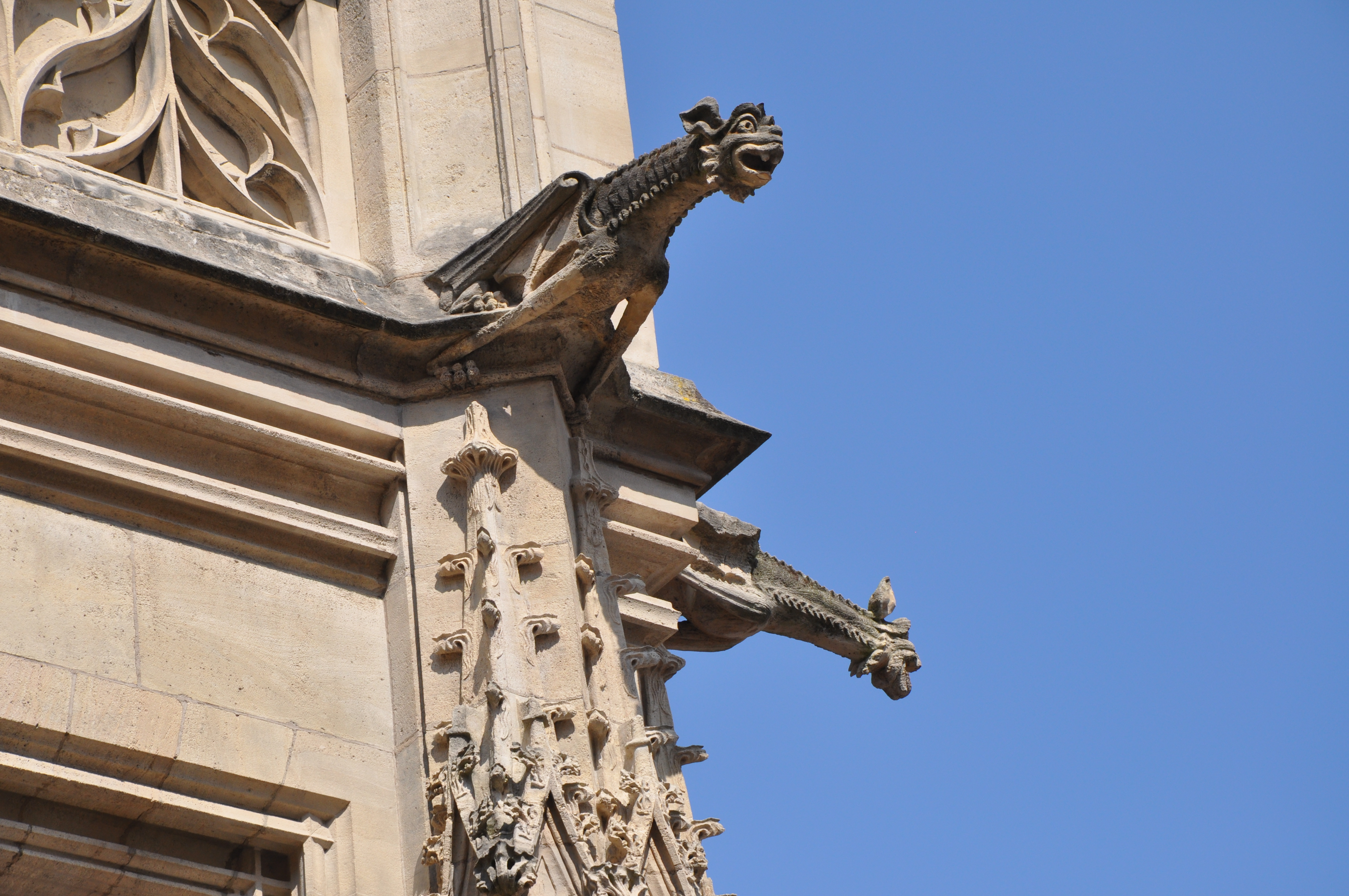 Rouen (France, Normandy) .